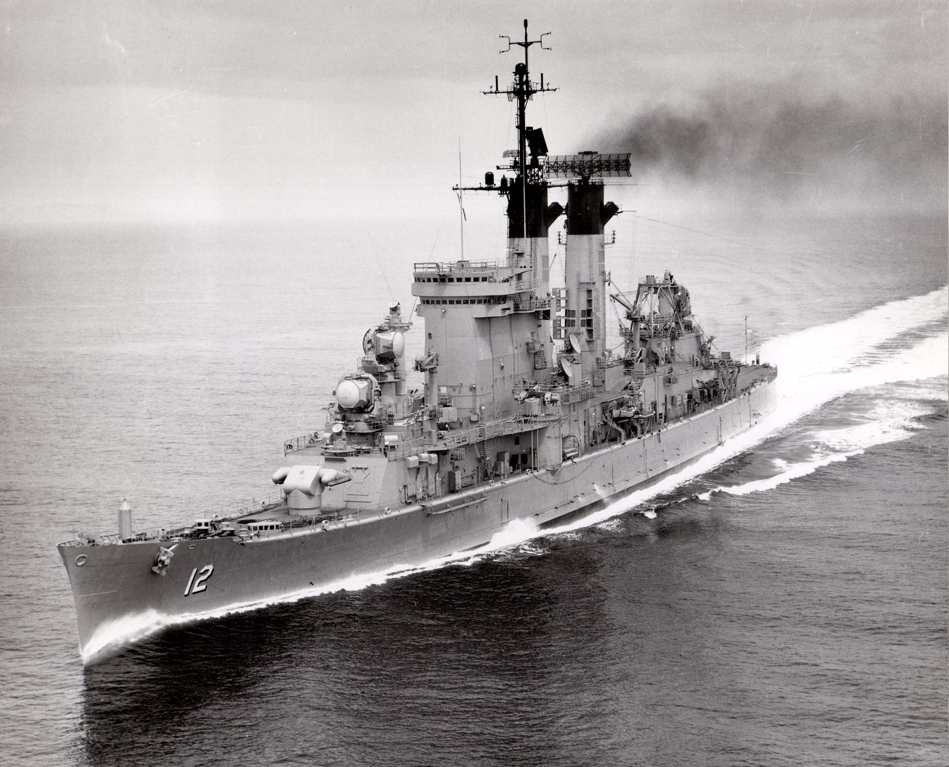 The U.S. Navy guided missile cruiser USS Columbus (CG-12), circa 1962. Columbus was recomissioned on 1 December 1962. Note that the AN/SPS-30 radars fore and aft are still missing as are the two 127 mm/38 guns later fitted to the port and starboard of the aft mack.